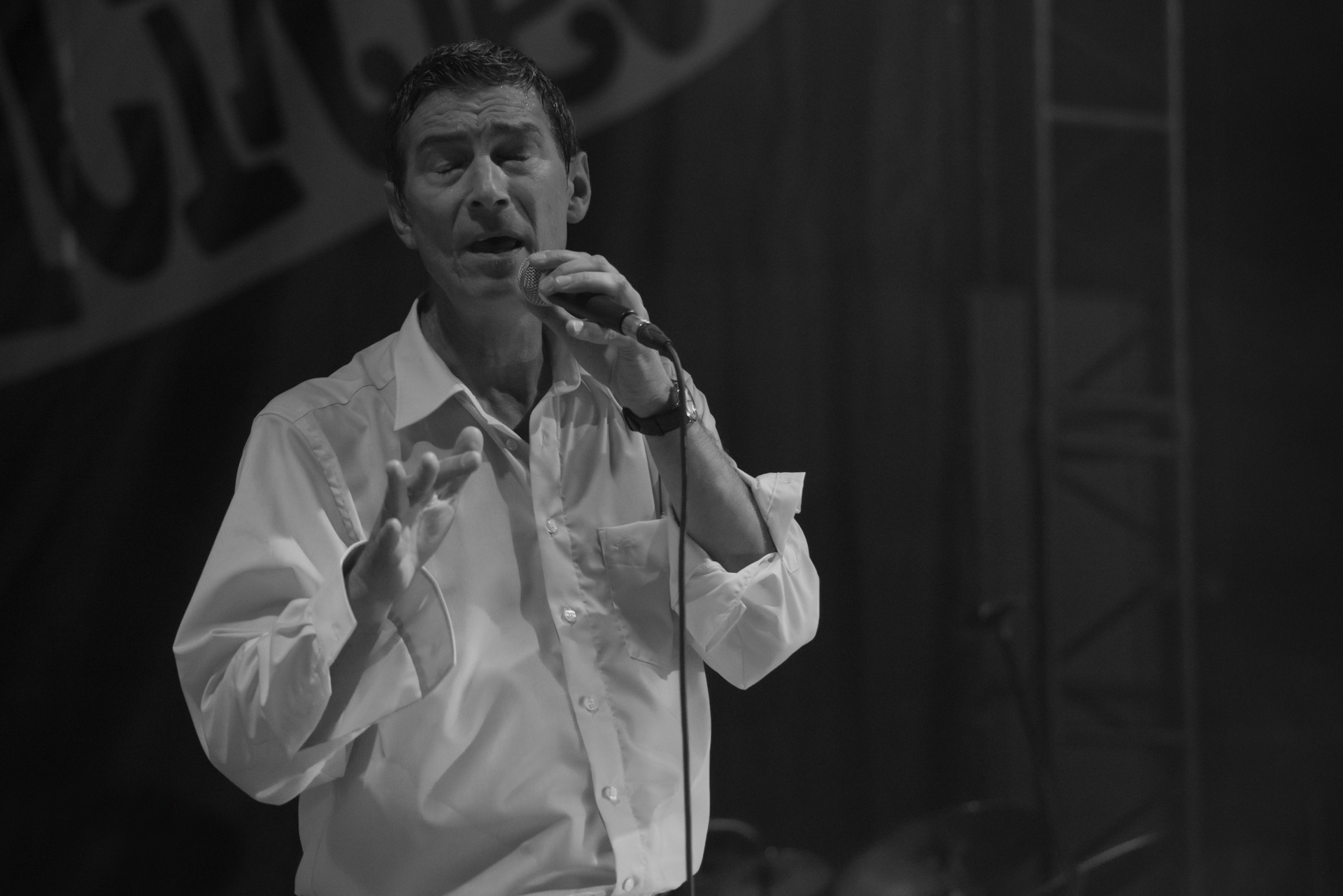 Massimo Savić croatian singer